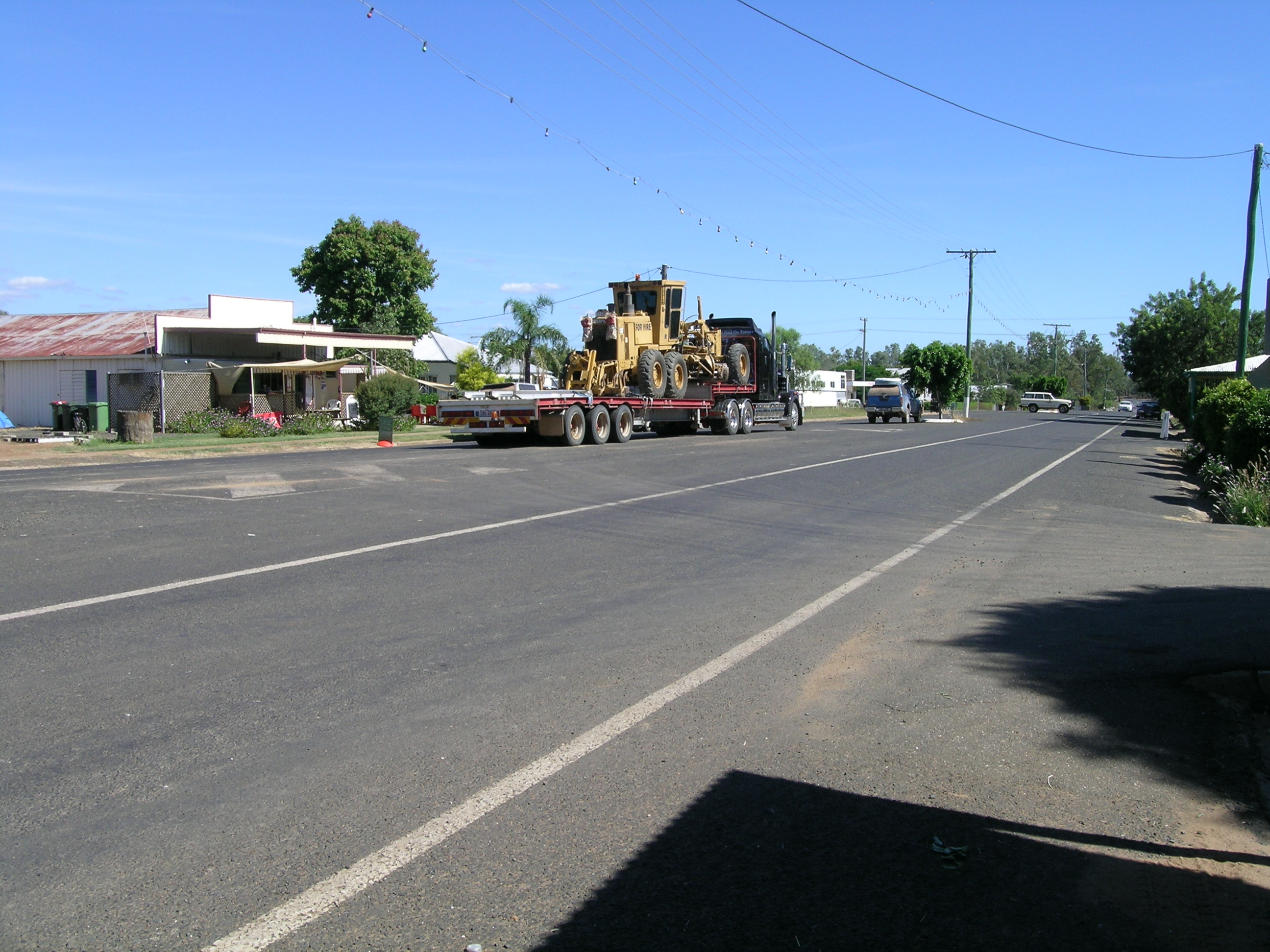 Rolleston, QLD.